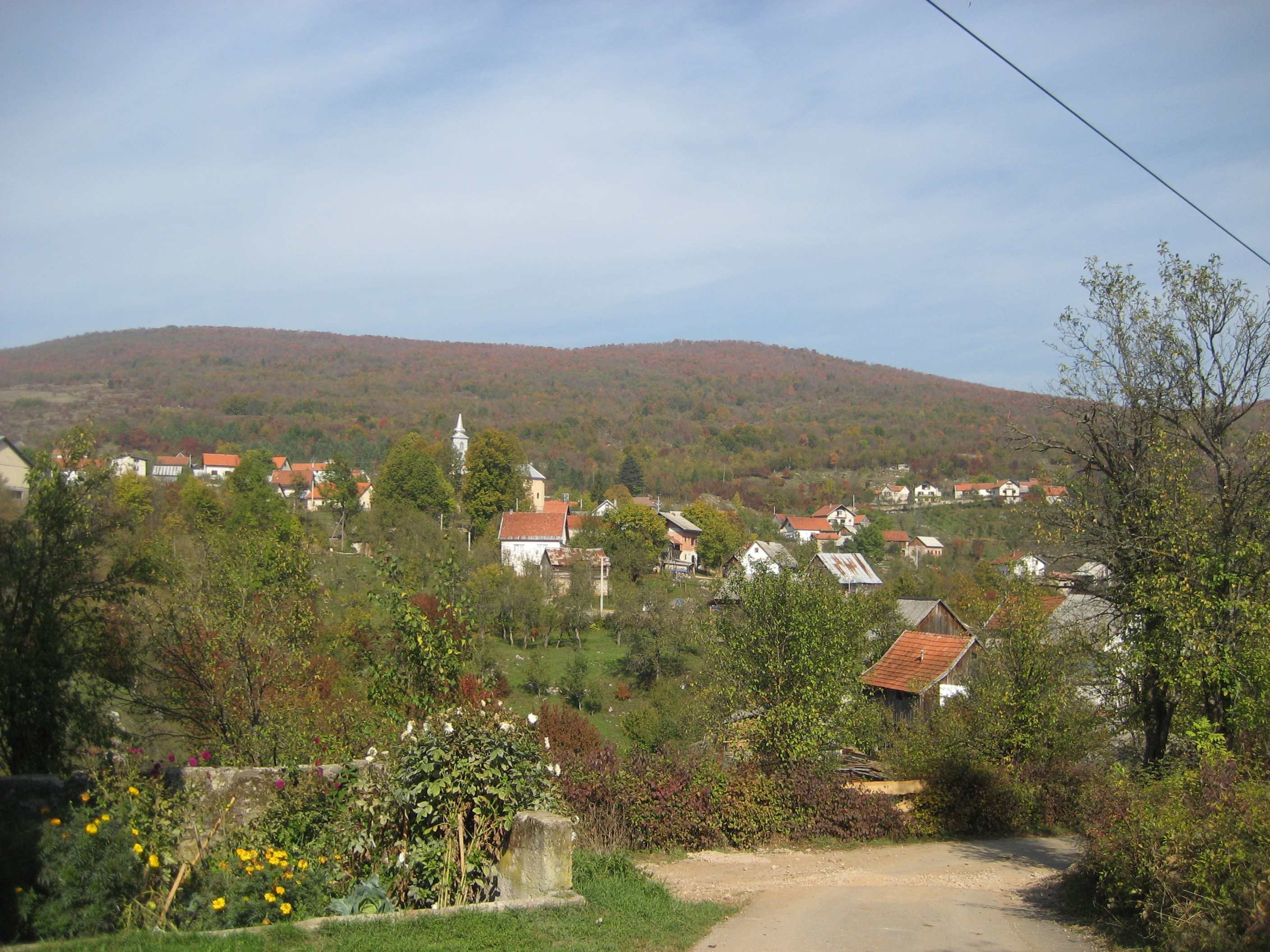 Kuterevo, Bärenrefugium, Kroatien